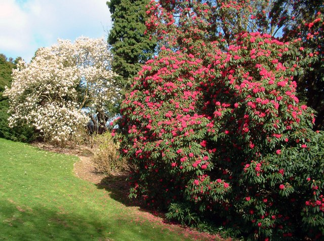 Spring Heligan Gardens, near to Pentewan, Cornwall, Great Britain.